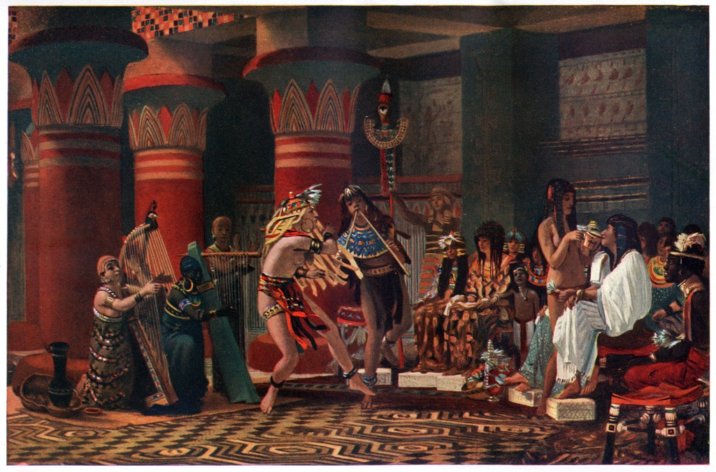 "Pastime_in_Ancient_Egypt", juvenile work by Lawrence Alma-Tadema